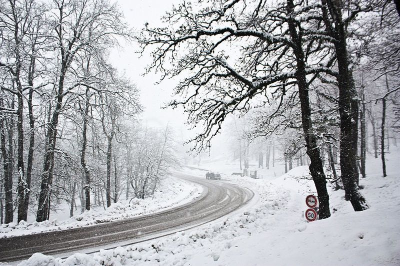 Tbarka Snowfall